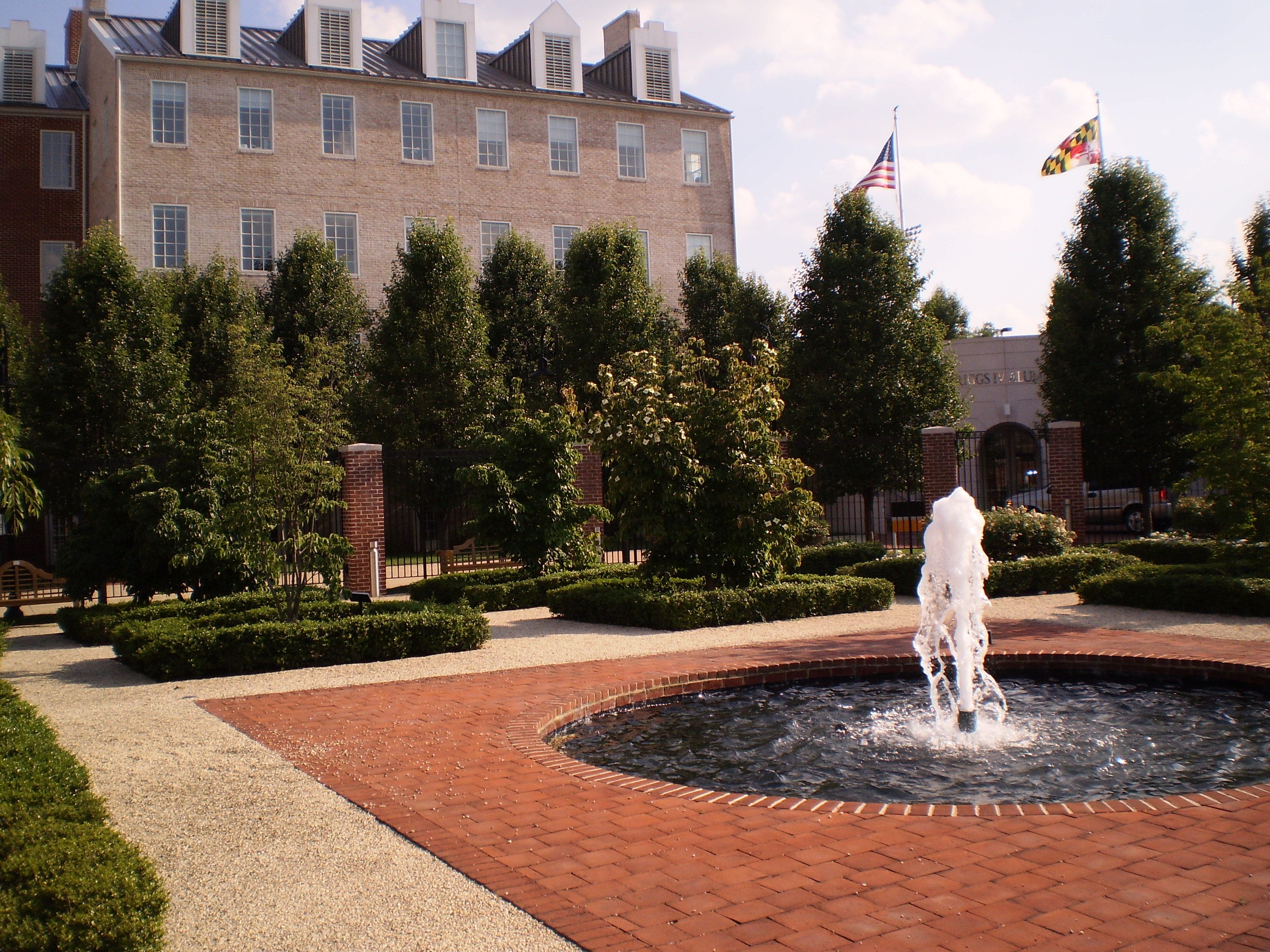 Fountain in front of the Riggs Alumni Center on the campus of the University of Maryland, College Park.